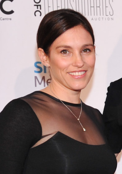 Amy Jo Johnson, Director/Actor; Jessica Adams, Producer and CFC's Cineplex Entertainment Film Program alumna; Ayah Norris, Canada Film + Creative, Indiegogo; Katie Camaret; and Jennifer Mesich, Director of Development and Production, Film & Television at Don Carmody Productions Photo by Sam Santos